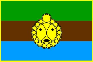 Flag of Utuado, Puerto Rico